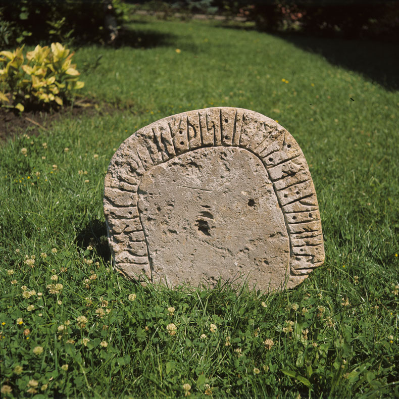 Berezan' Runestone